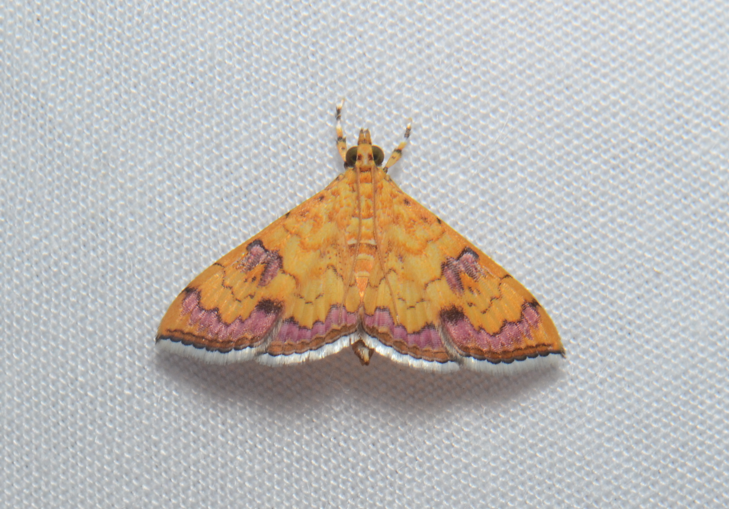 Thanks to John Horstman and Bernard Dupont for ID help